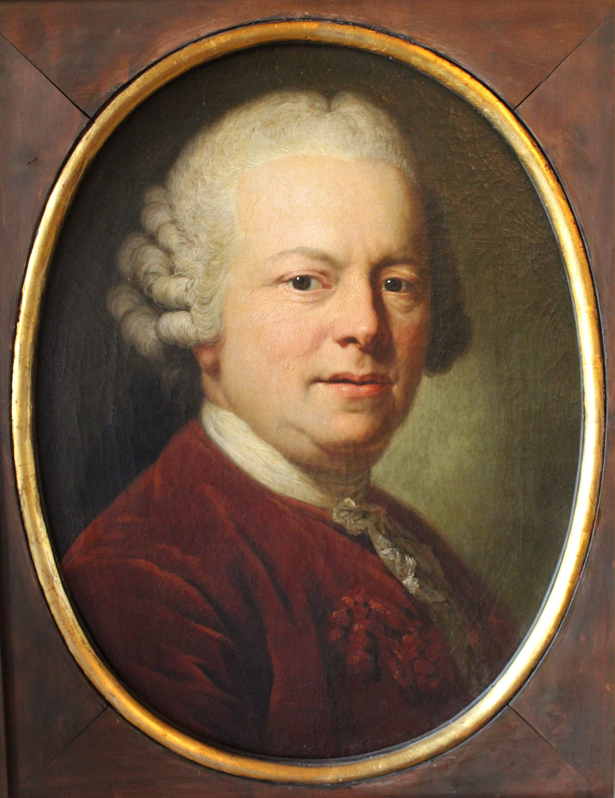 Weimar, Schlossmuseum, Anton Graff, portrait of Gottlieb Wilhelm Rabener